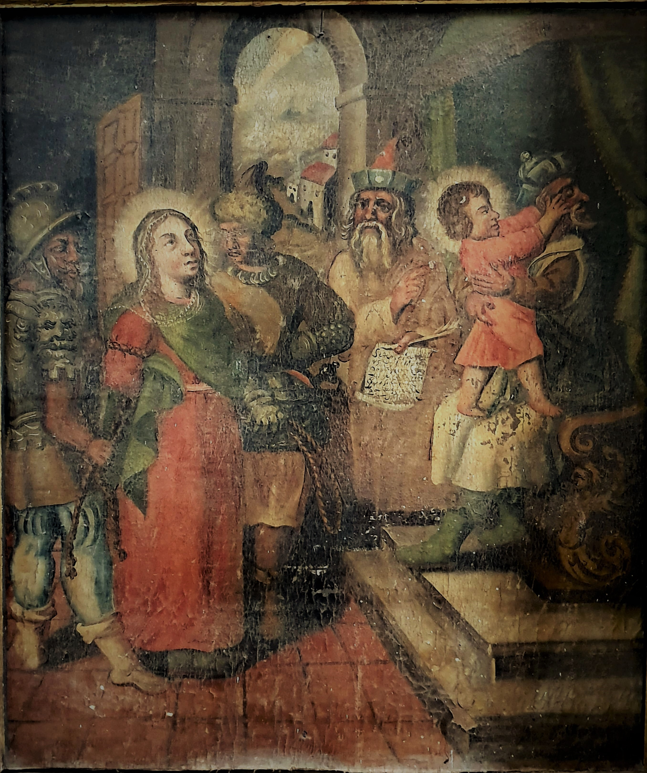 Life and Martyrdom of Santa Julita and San Quirico in the Main Altarpiece of the Church of Our Lady in Villamelendro de Valdavia.